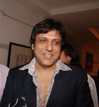 Govinda at the release of Dev Anand's Autobiography 'Romancing With Life'